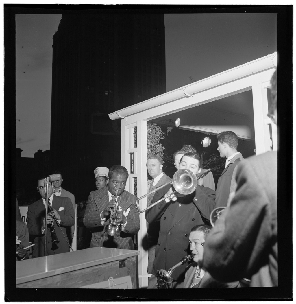 Louis Armstrong and Jack Teagarden, between 1938 and 1948